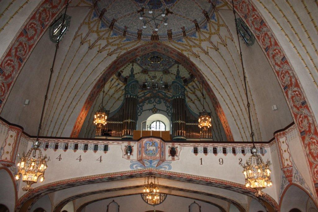 Lammi church, in Lammi, Hämeenlinna, Finland. Organ balcony